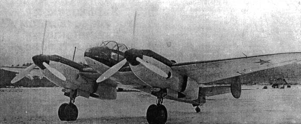 Yak-4, light bomber plane.